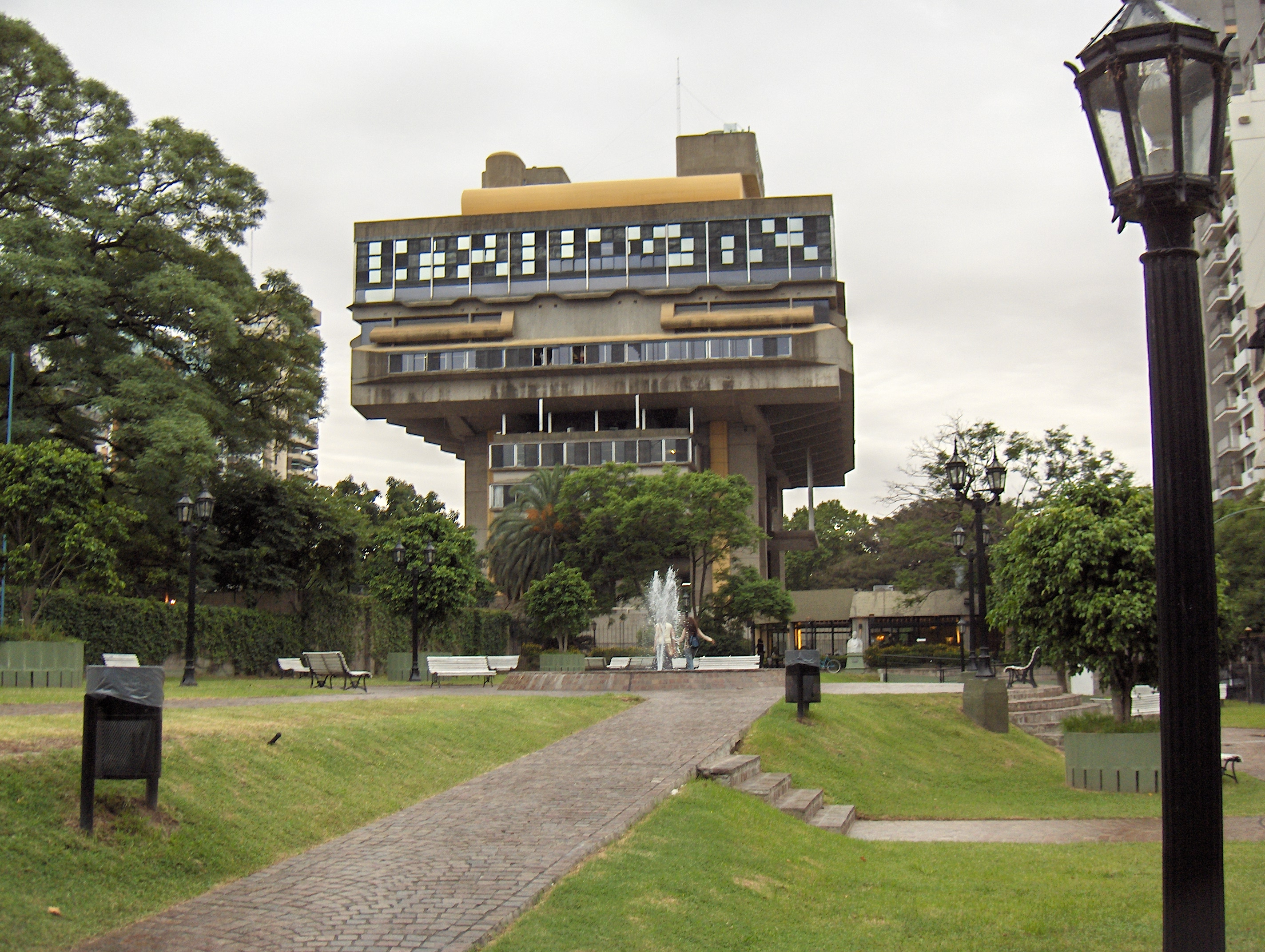 Biblioteca Nacional, Clorindo Testa, in the Recoleta district of Buenos Aires, Argentina.